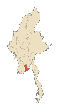 Yangon division in Myanmar